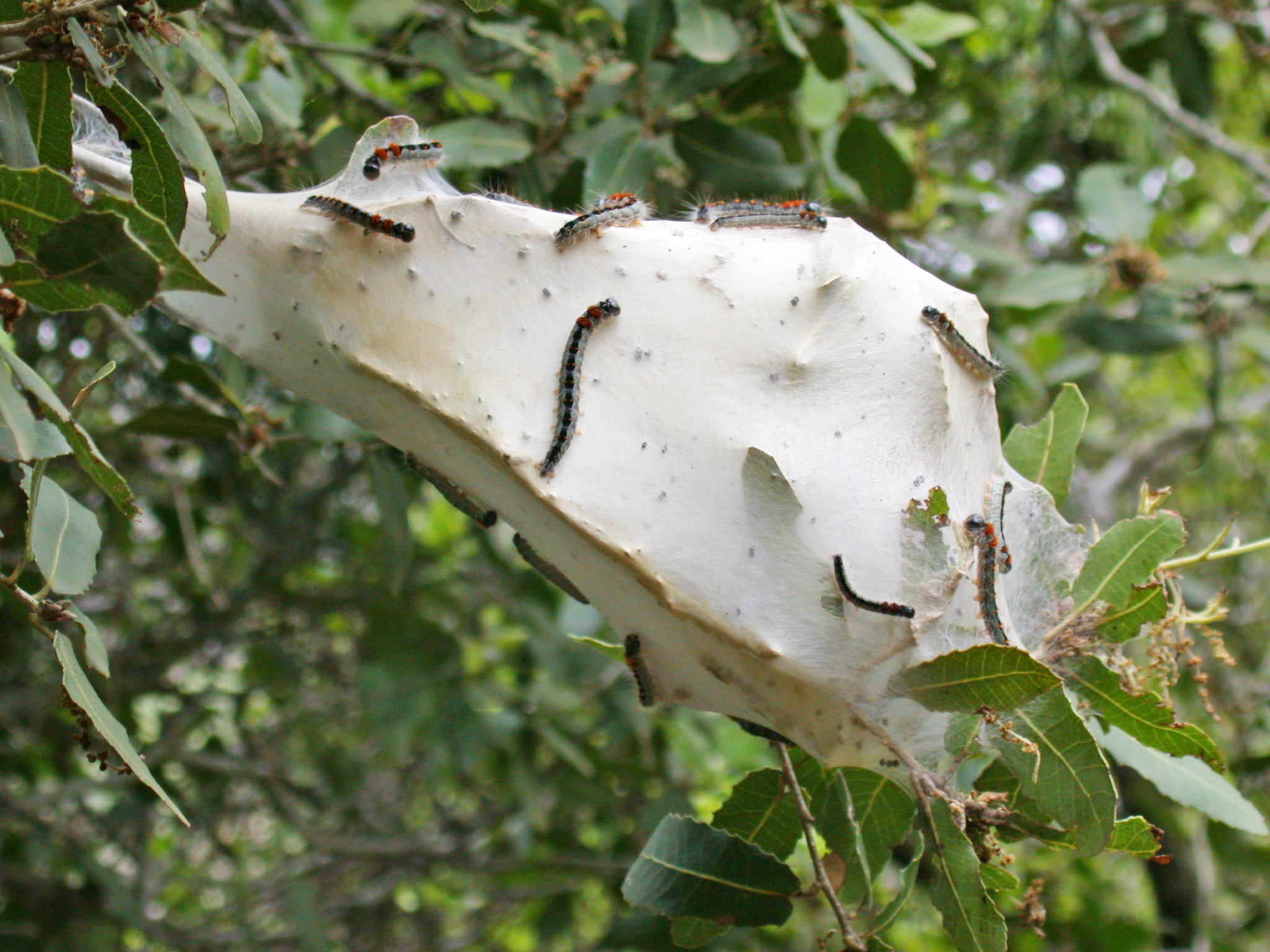 Nest of Eriogaster philippsi on Quercus calliprinos, Nachal Rakefet, Mount Carmel, Israel, April 18, 2006.